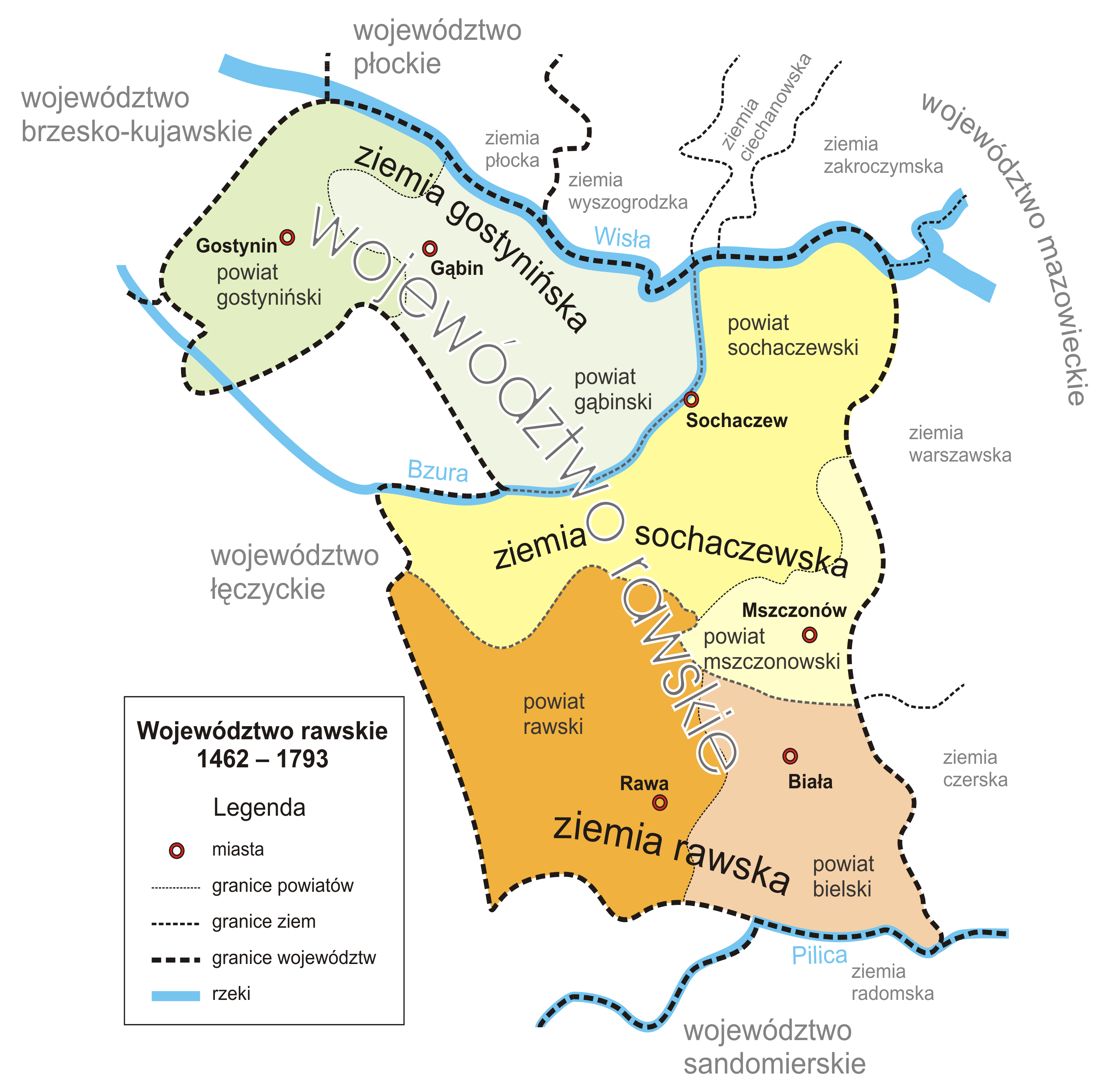 Rawa Voivodship